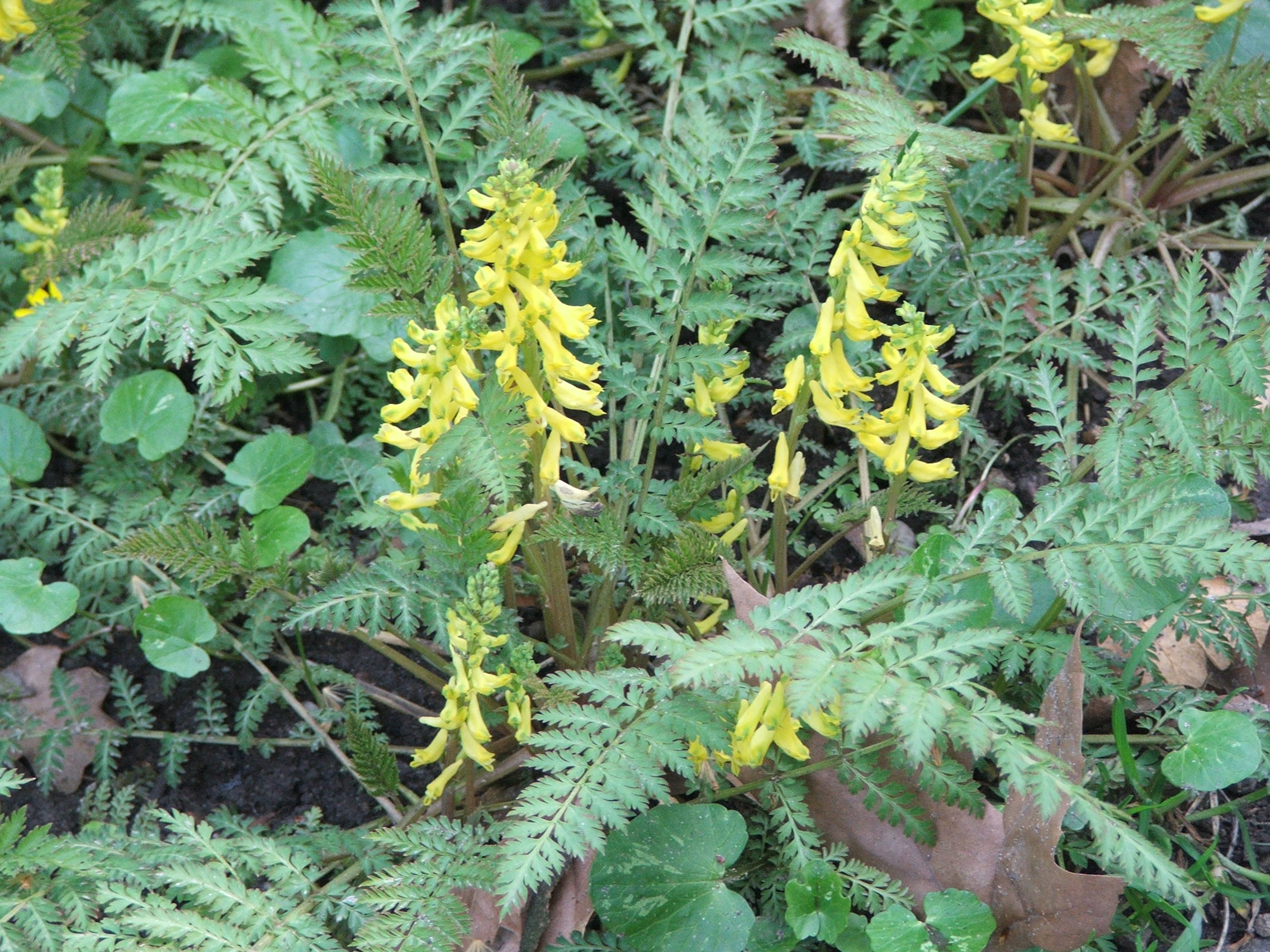 Corydalis cheilanthifolia, MTA Botanic Garden (Hungary)